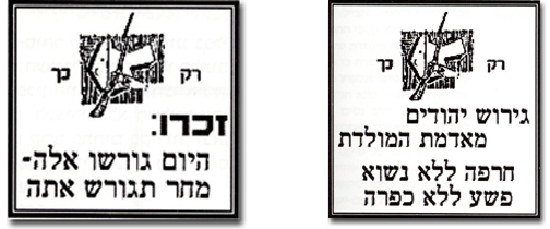 Irgun posters concerning the deportation to Africa